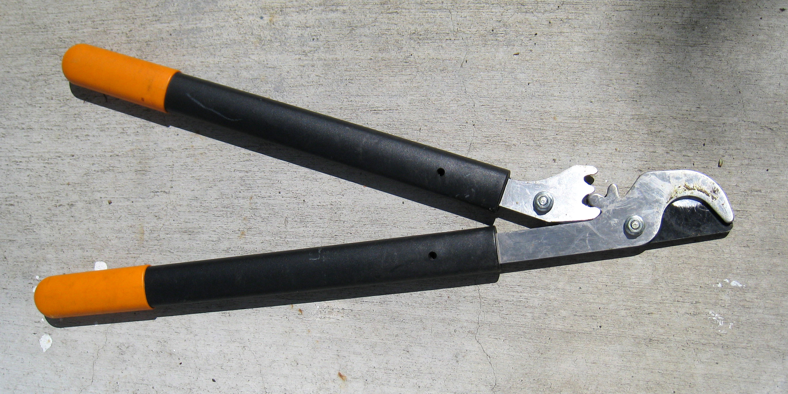 Bypass style loppers or pruners, for cutting branches up to about 5cm or 2 inches in diameter. This pair has rather short handles because it has gears.